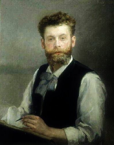 Selfportrait